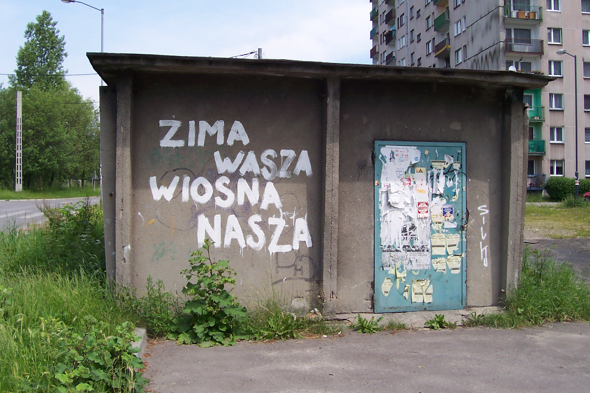 Photo from Emily Cries movie plan